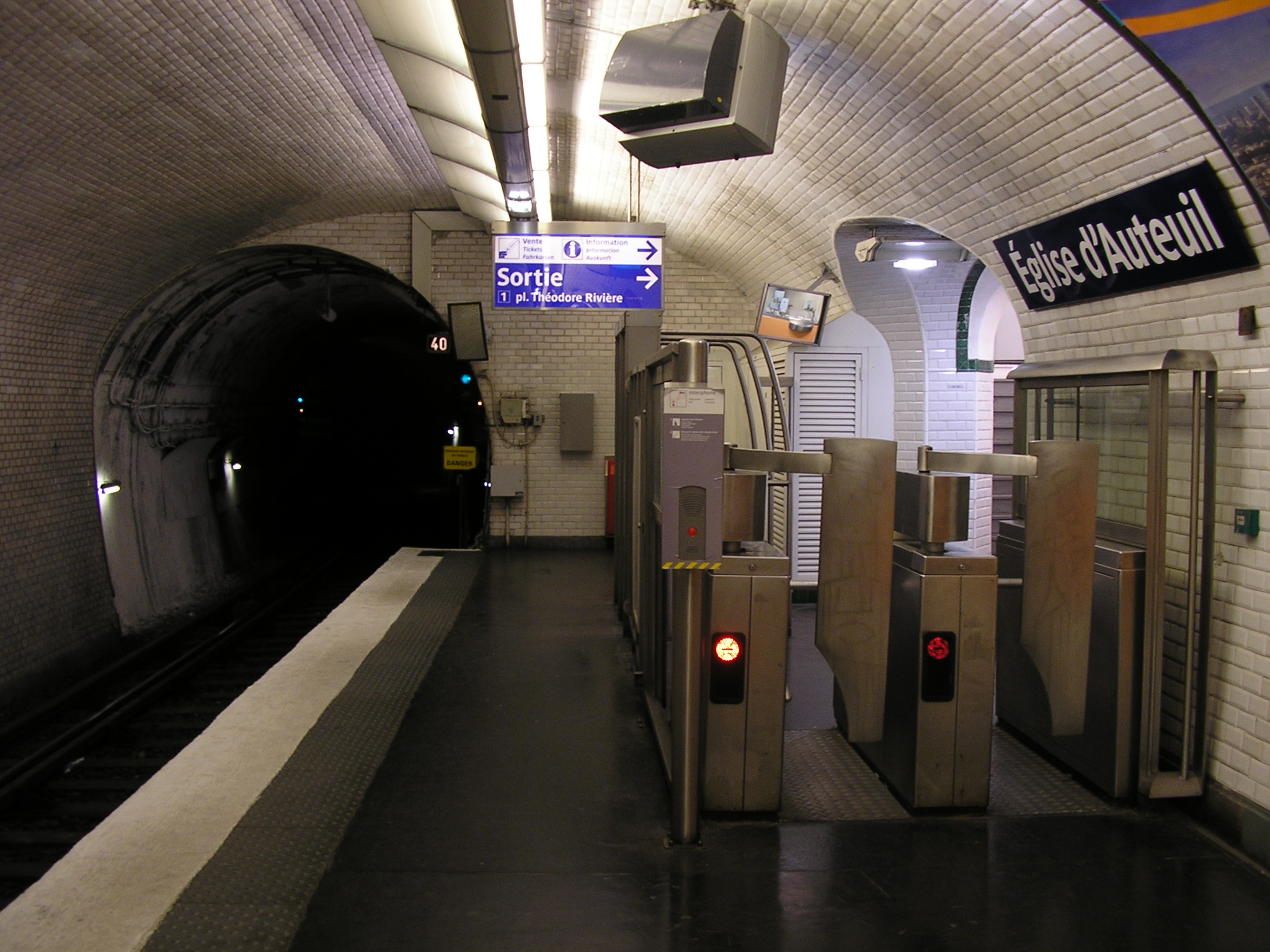 Close view of the place Théodore Rivière exit, Église d'Auteuil station, line 10 of the Paris metro.